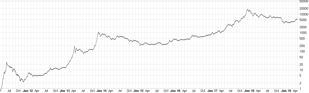 Logarithmic chart of conversion rates from BitCoin to US dollars from April 2011 to April 2019 as traded on the BitCoin exchanges Bitstamp and (earlier) Mt. Gox.